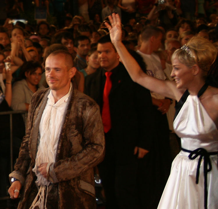 Sharon Stone, chairwoman of amfAR’s campaign for AIDS research, with Gery Keszler, founder of the the Life Ball, on the red carpet at the opening of the Life Ball 2007 at the Rathausplatz in Vienna, Austria.